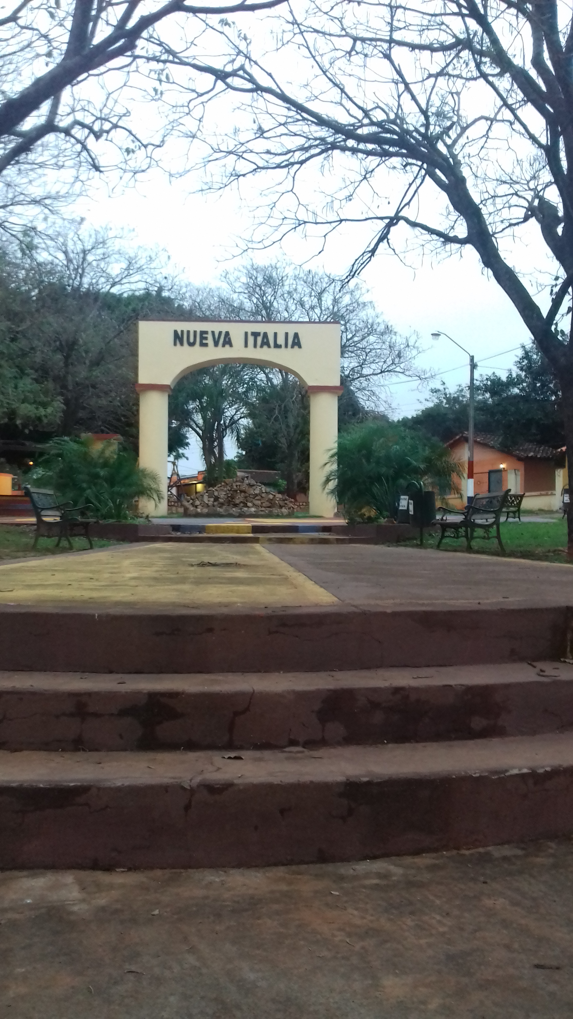 Nueva Italia was founded in 1904 as a town in Paraguay [1]